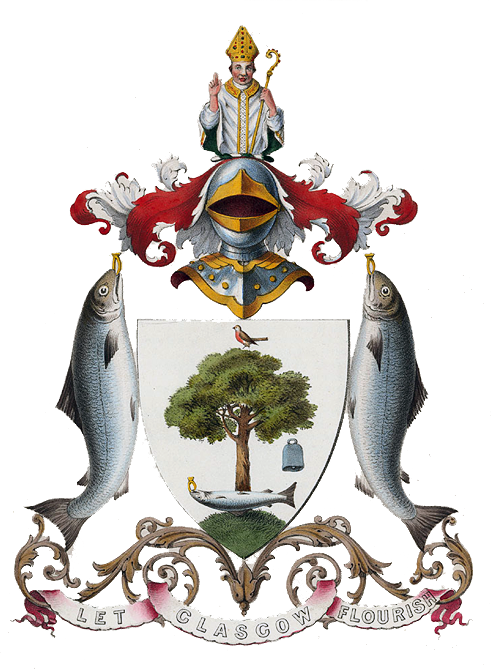 Glasgow Coat of Arms, historical arms from 1866, not the current arms